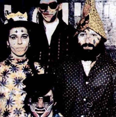 Trade ad for Dr. West's Medicine Show and Junk Band's single "The Eggplant That Ate Chicago". To better adapt it to his respective Wikipedia article, the ad was cropped and cleaned in a graphics editing program. The original can be viewed at the source below.